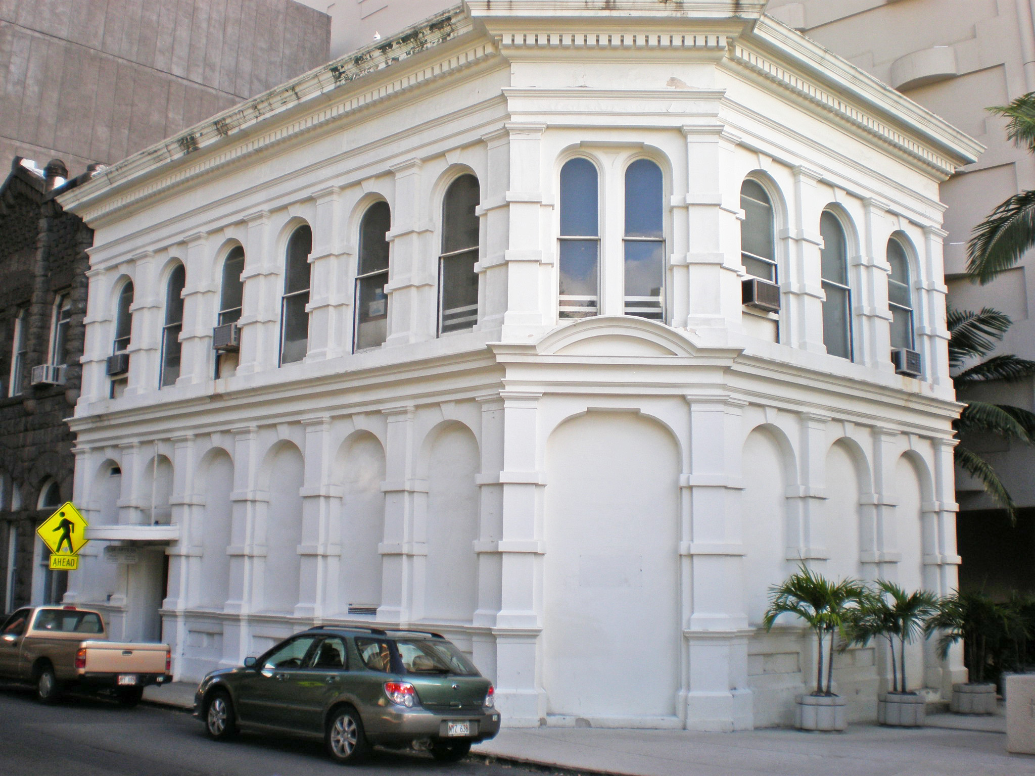 Old Bishop Bank Building, 63 Merchant Street, Honolulu, Hawaii, in Merchant Street Historic District on National Register of Historic Places